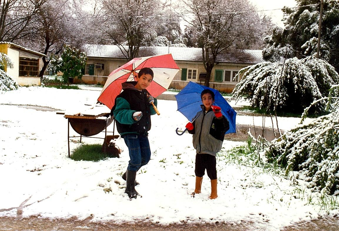 Snow in Neot Mordechai. Notes: Snow rarely falls in Neot Mordechai